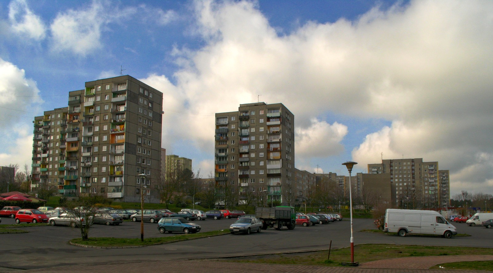 Przyjaźni housing district